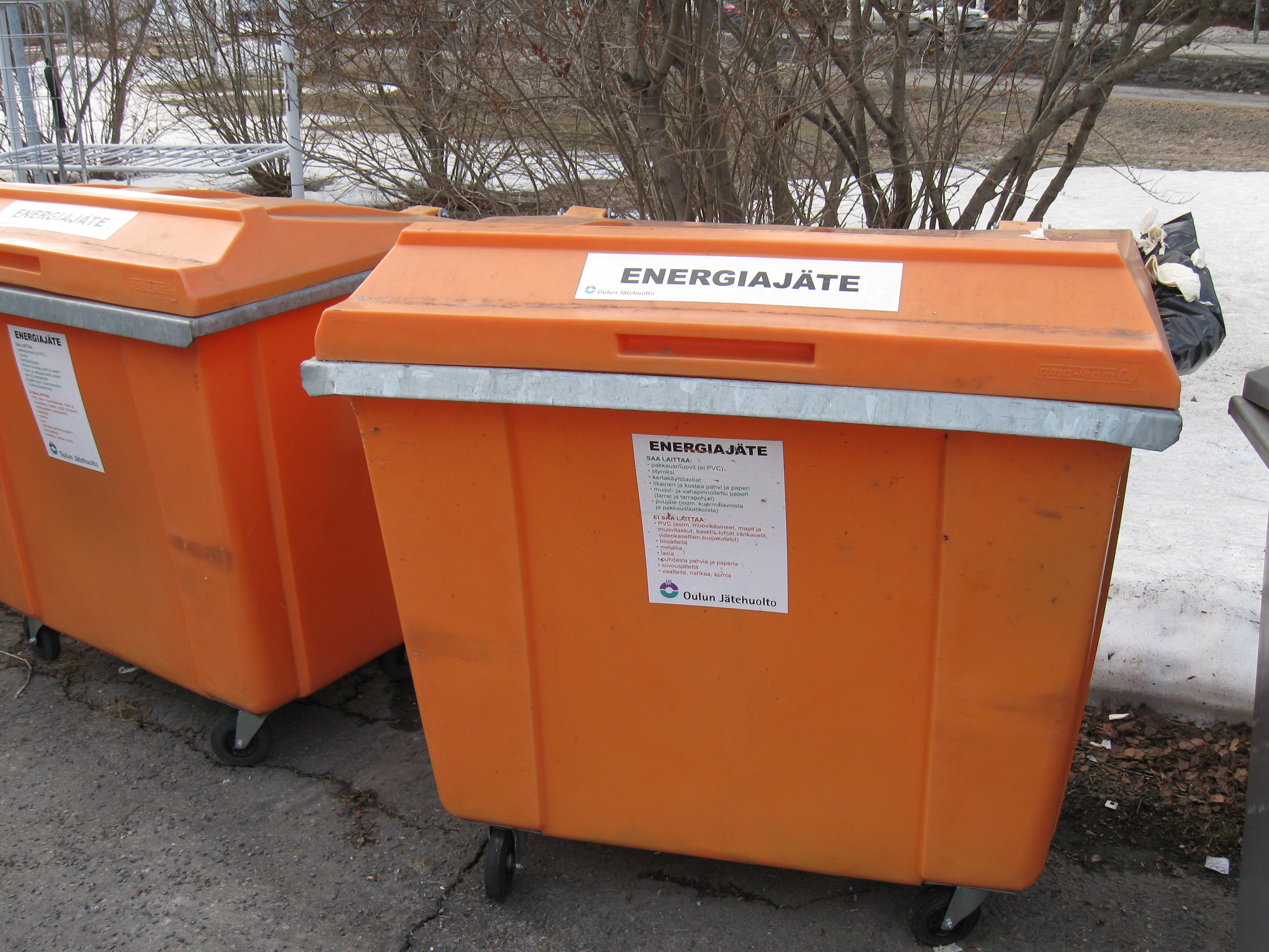 Cans used to collect waste in Finlad that can be burned to produce energy.